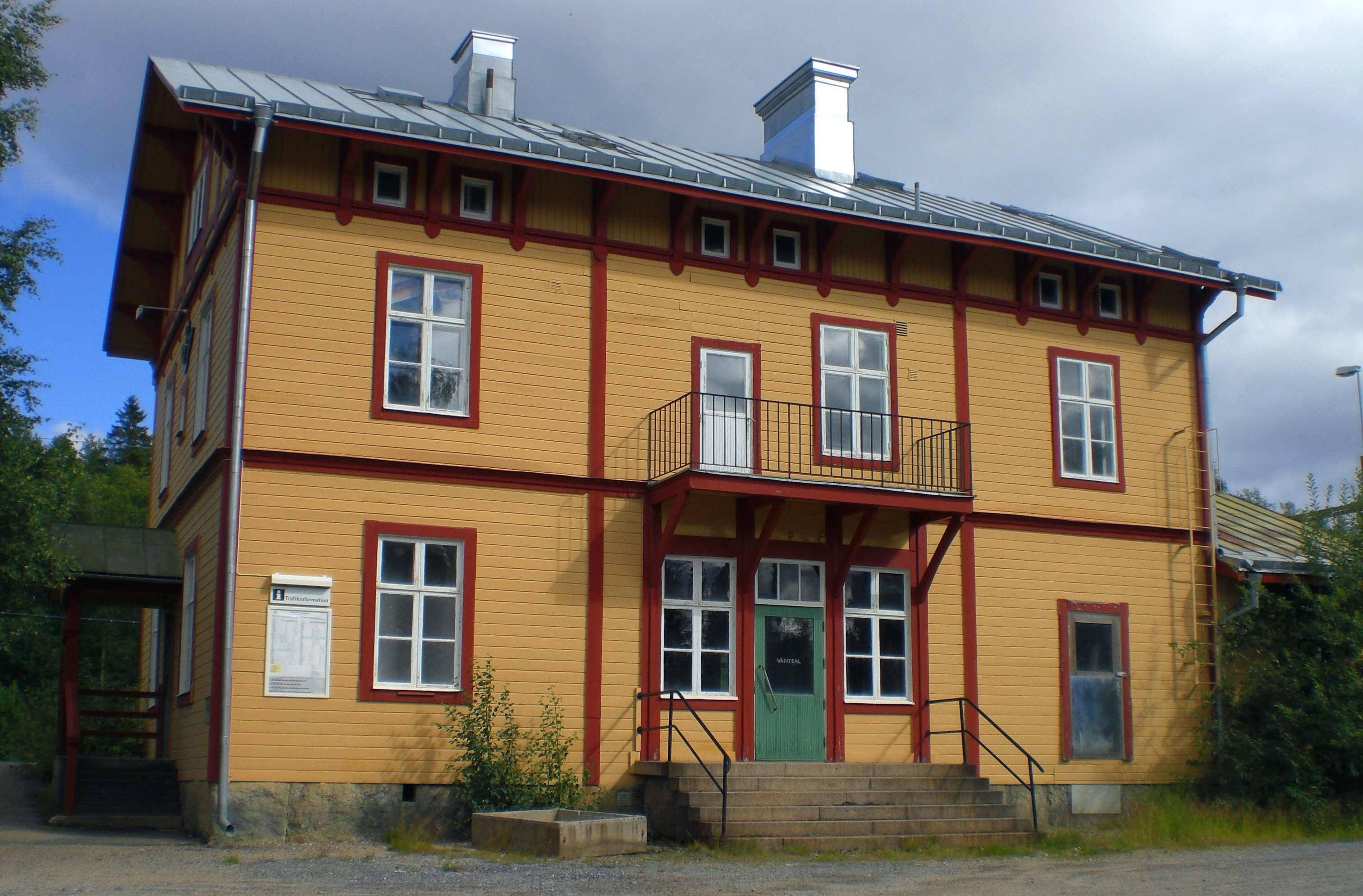 Hällnäs train station, Västerbotten, Sweden